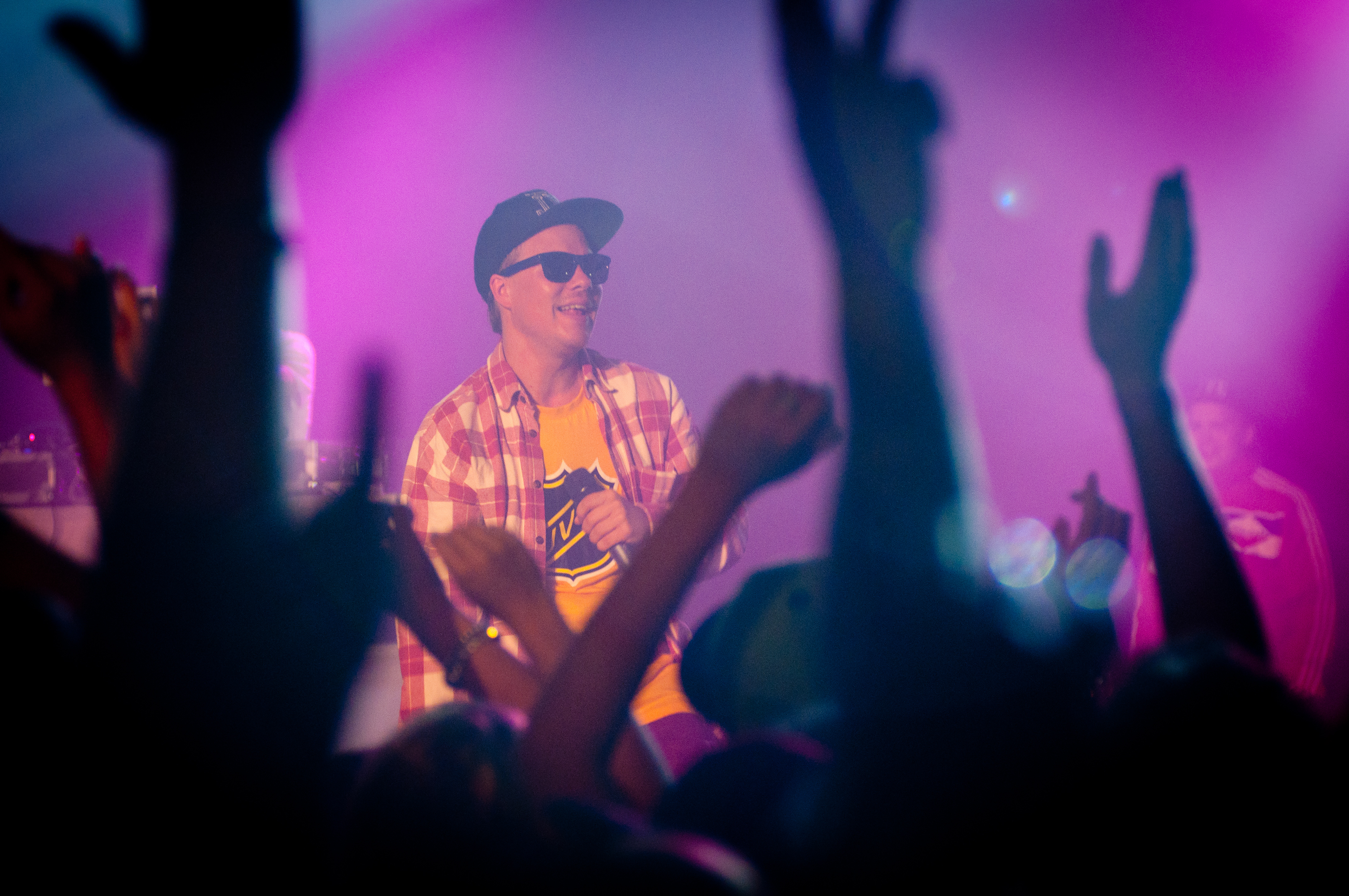 Finnish rapper Ville Galle of Jare & VilleGalle performing in Lappeenranta, Finland.